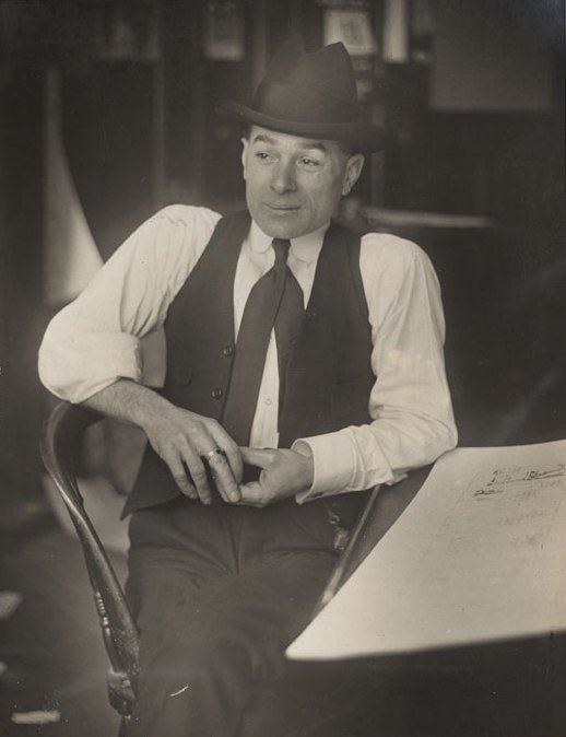 Photo of George Herriman in Los Angeles from December 1, 1915